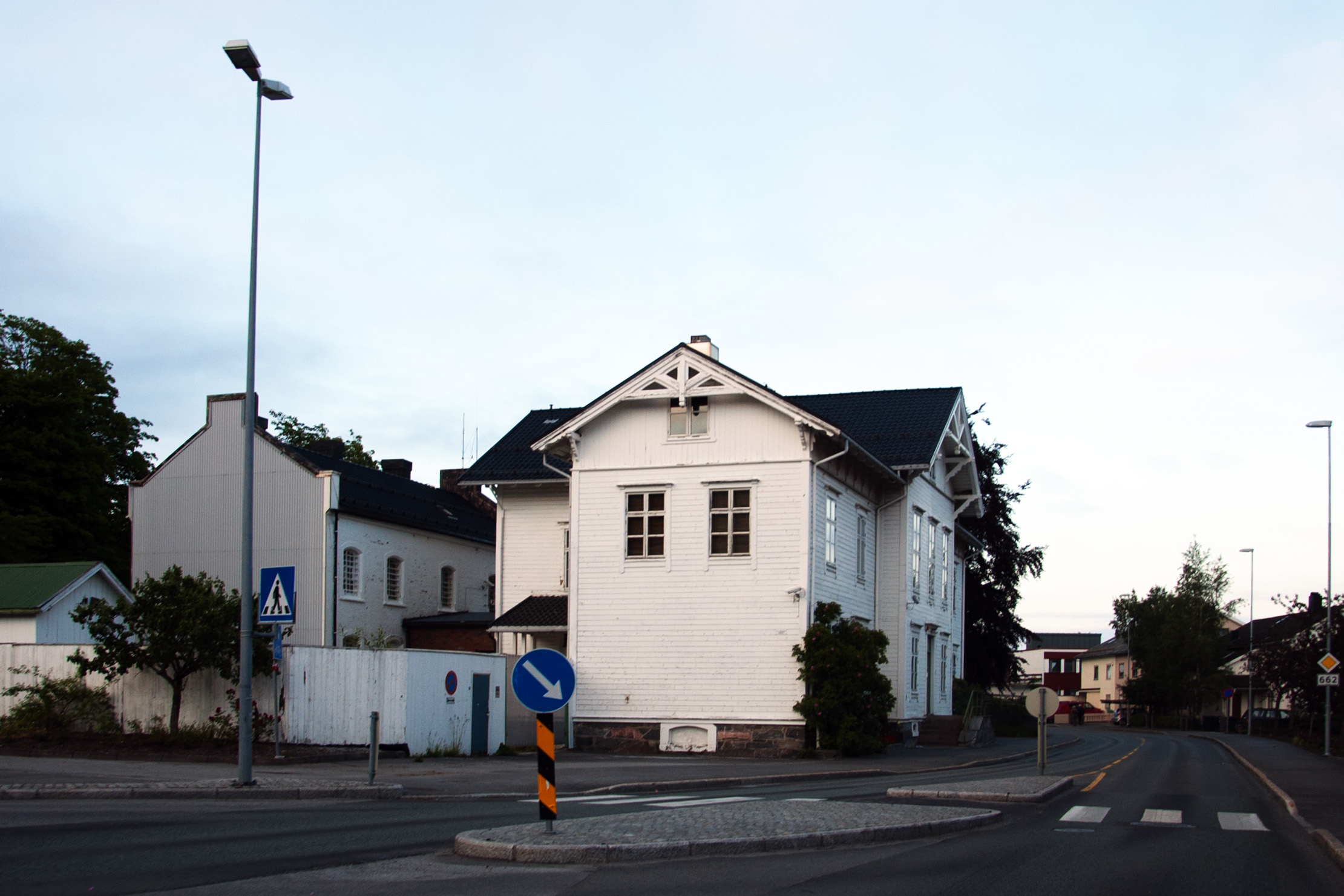 Molde Prison, Molde, Møre og Romsdal county, Norway.